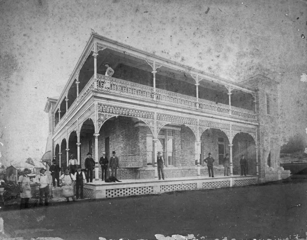 Leckhampton at 59 Shafston Avenue, Kangaroo Point, Brisbane, ca. 1895 Considered to be the work of noted architect Alexander B Wilson, Leckhampton was built for Charles Snow shortly after he purchased the land in 1889. Snow was a prominent city jeweller. He died in 1913 and the house remained in the Snow family until 1924. Leckhampton was converted into flats by the 1960s. In 1984 the building was refurbished as office accommodation. As part of the redevelopment a similarly styled building was constructed next door.